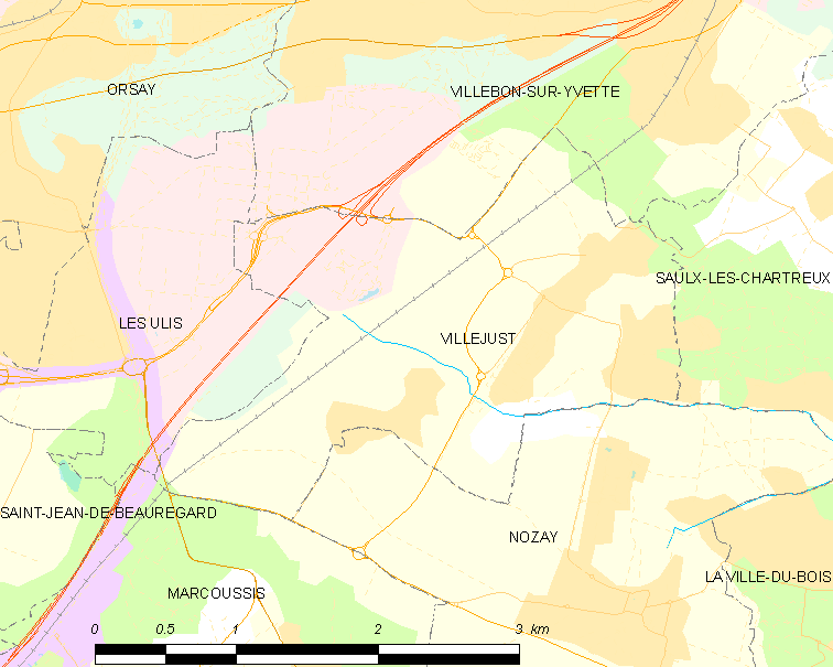 Map of French municipality Villejust